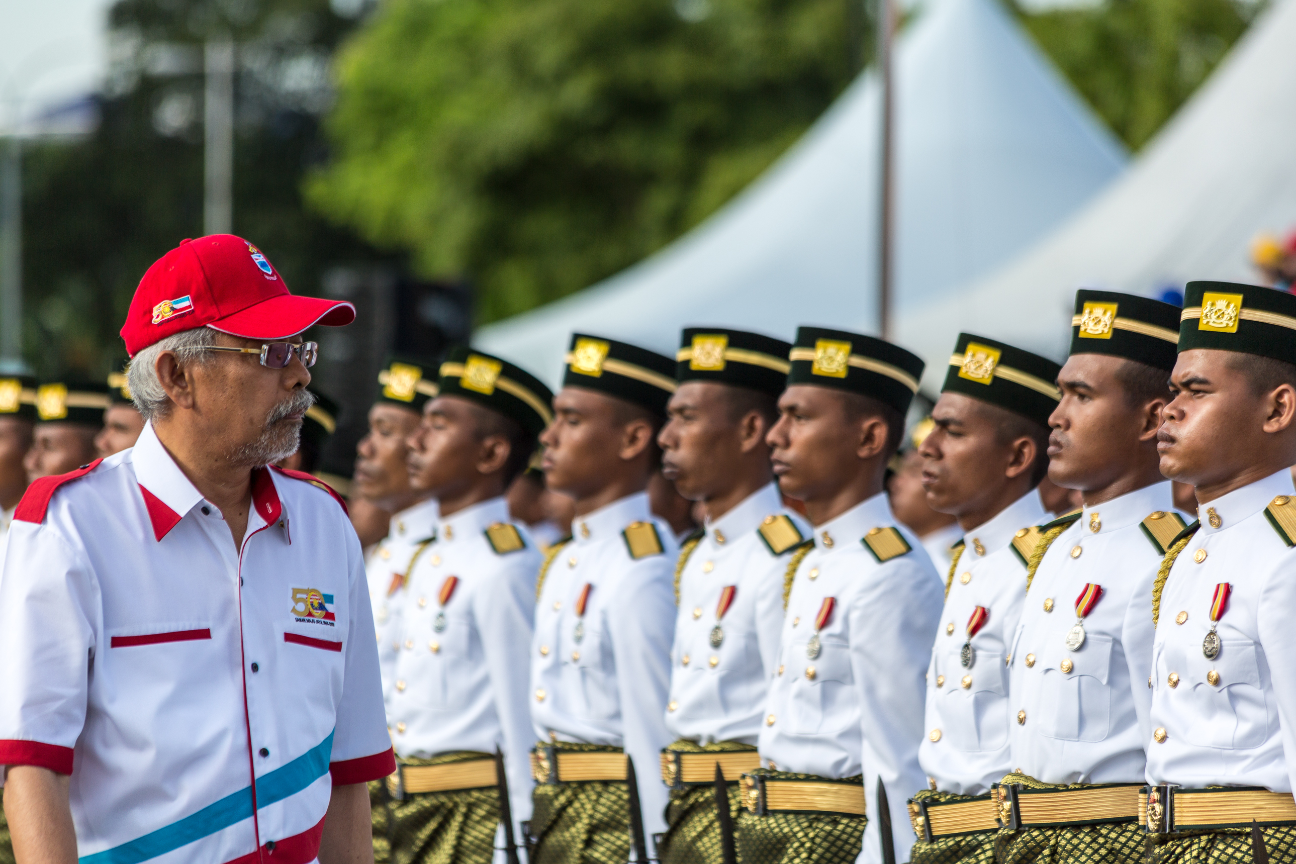 Kota Kinabalu, Sabah, Malaysia: Head of State, Juhar Mahiruddin, opening the celebrations of Hari Merdeka 2013 in Likas on August 31, 2013